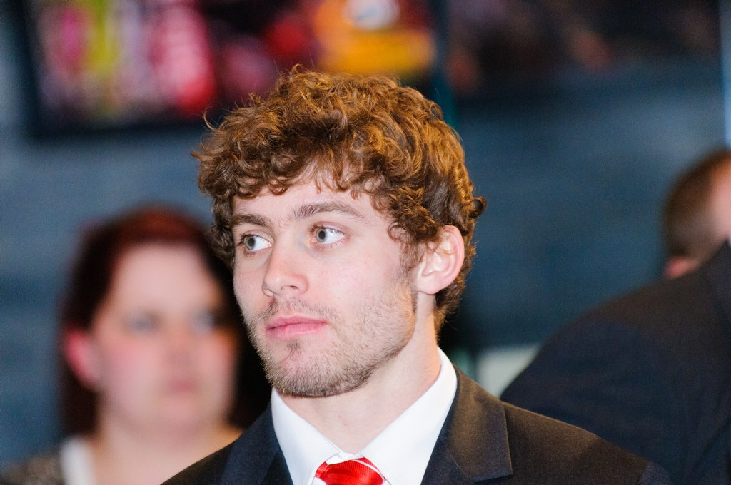 Rugby union player Leigh Halfpenny. Wales Grand Slam Celebration, Saturday 19 March 2012